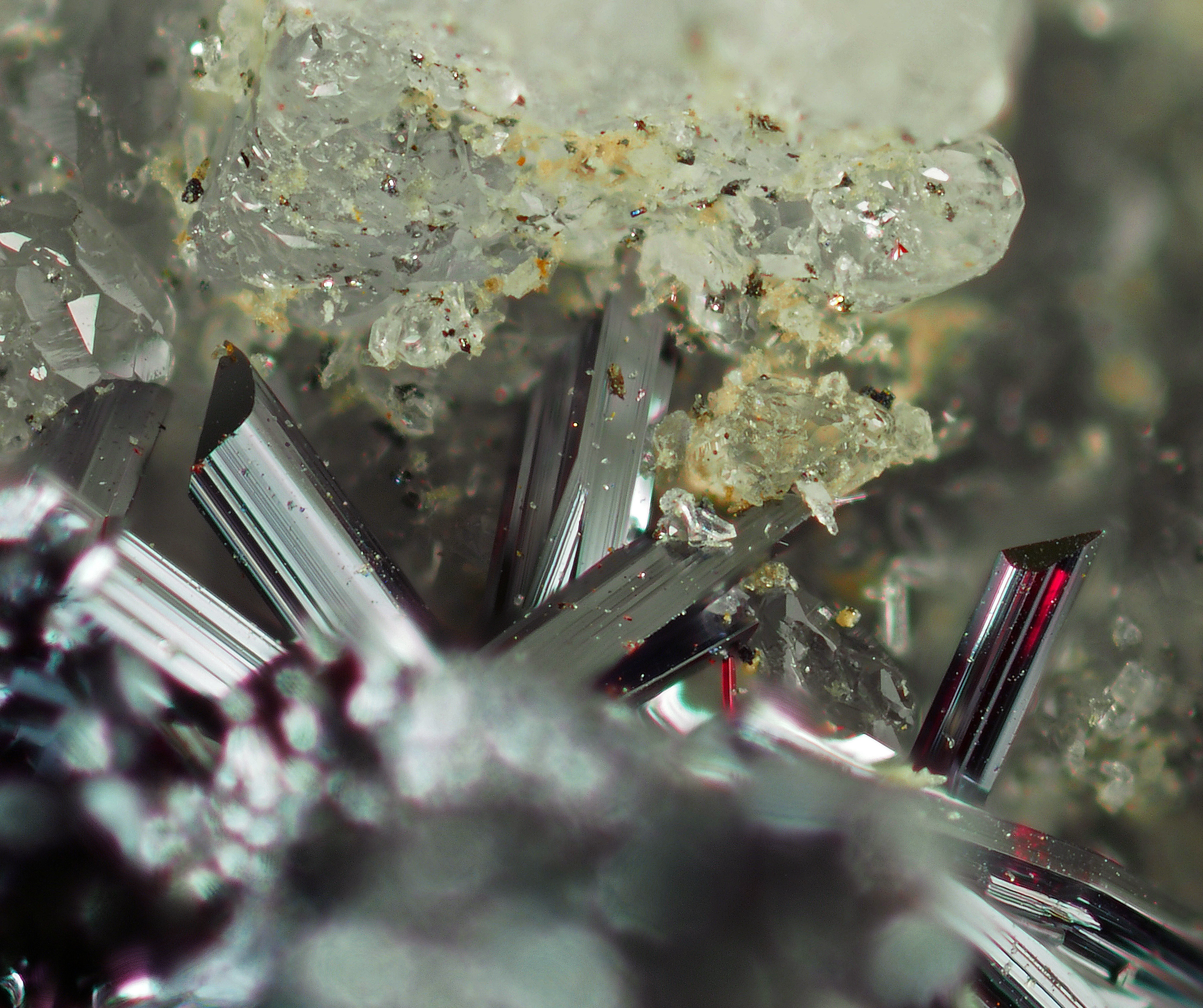 Samsonite (field of view 1,5 mm) Fundort: Samson Mine, St Andreasberg, St Andreasberg District, Harz, Lower Saxony, Germany Samsonite crystals on quartz, fov 1.5 mm I studied the ionic diffusion paths of this mineral.